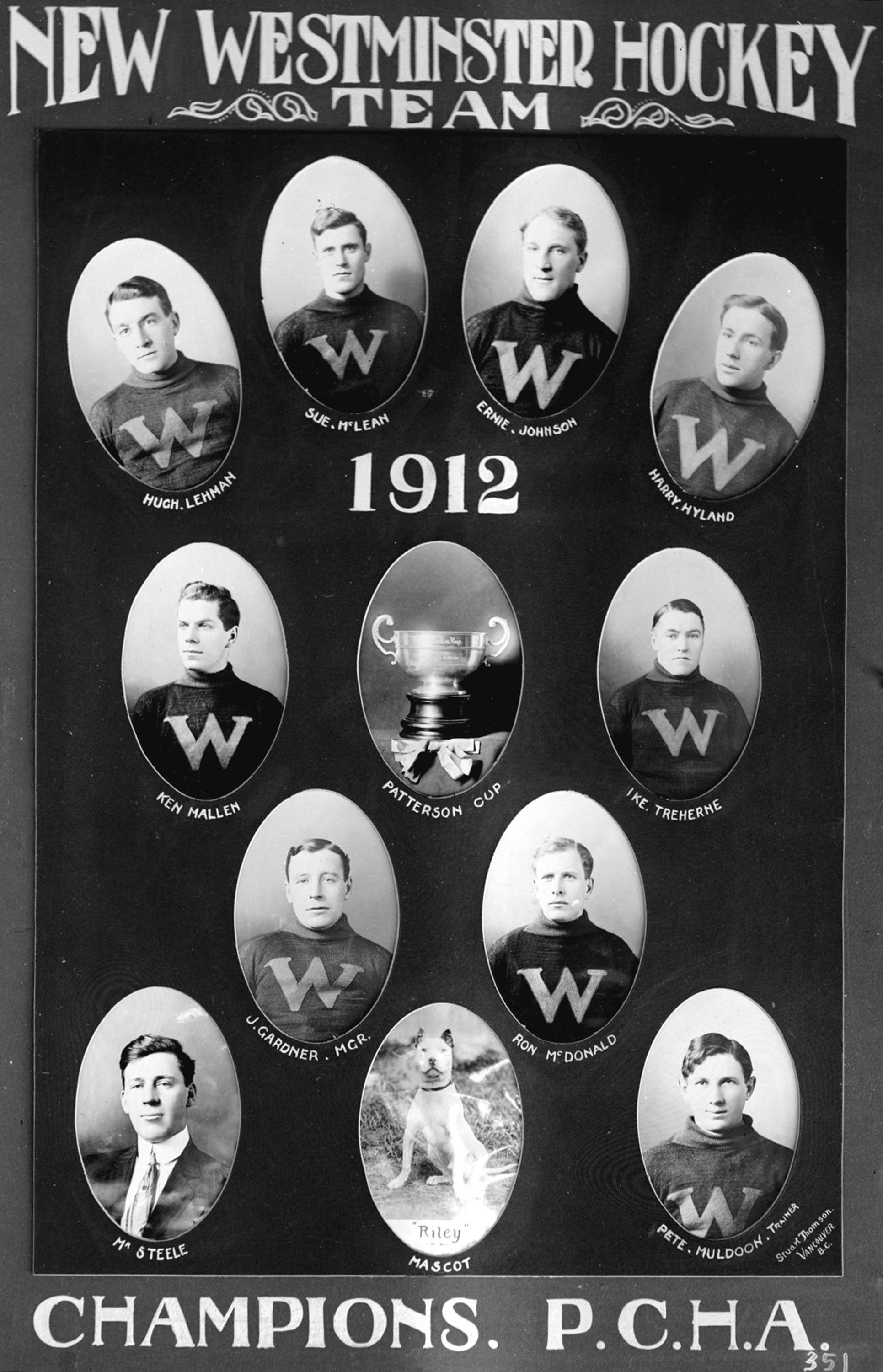 Photograph of New Westminster Hockey Team, 1912 P.C.H.A. Champions. Clockwise from bottom left: Mr. Steele, Jimmy Gardner, Ken Mallen, Hugh Lehman, Archie "Sue" McLean, Ernie "Moose" Johnson, Harry Hyland, George "Ike" Treherne, Ran McDonald, Pete Muldoon (Trainer) and mascot Riley.